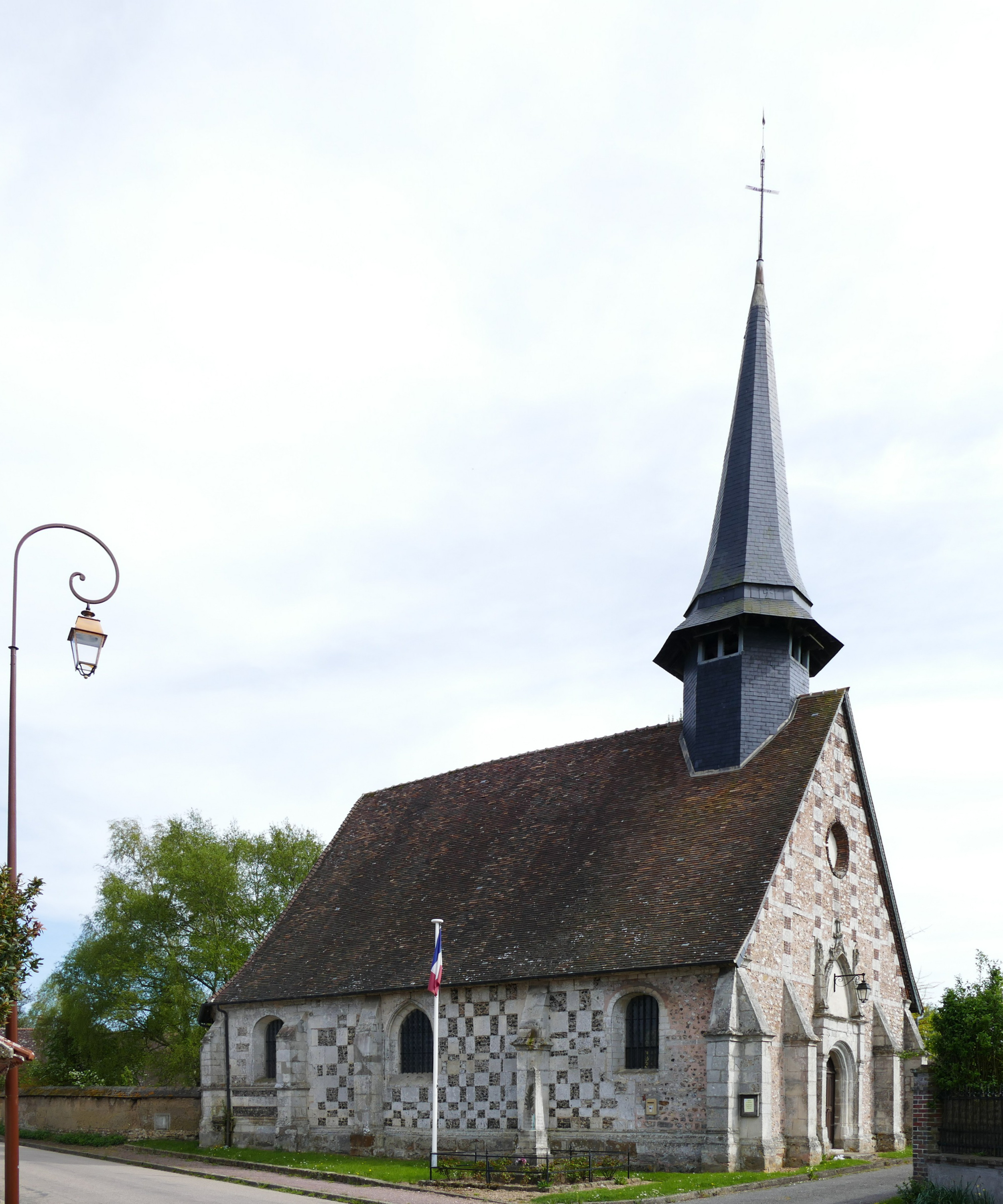 Saint-Léonard's church in Le Fresne (Eure, Normandie, France).